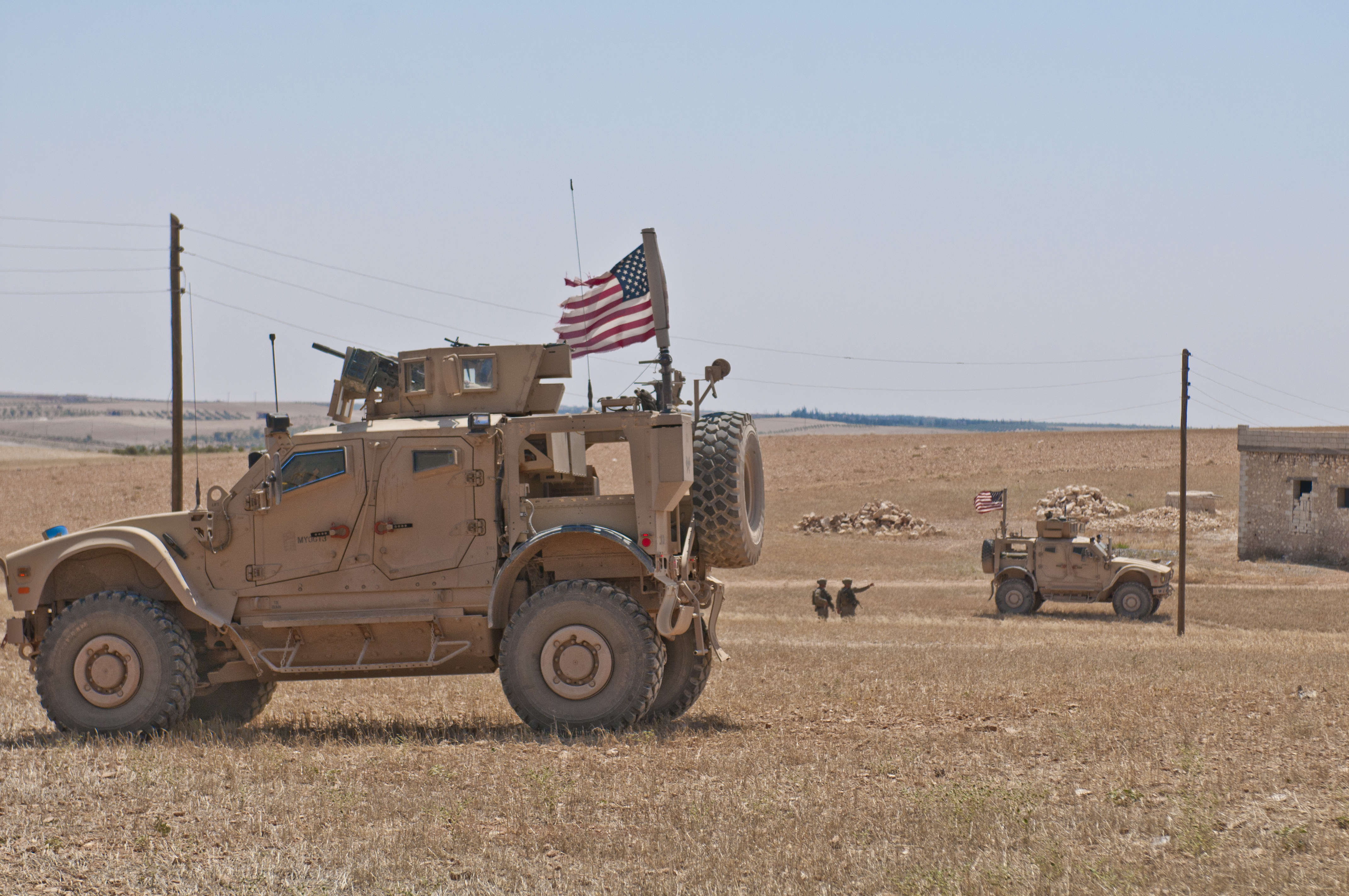 U.S. forces provide security during their independent, coordinated patrol with Turkish military forces along the demarcation line outside Manbij, Syria, July 14, 2018.